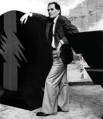 Pierre Cardin in a salon in Saint-Honoré, close to the mobile Eclair, 1977.